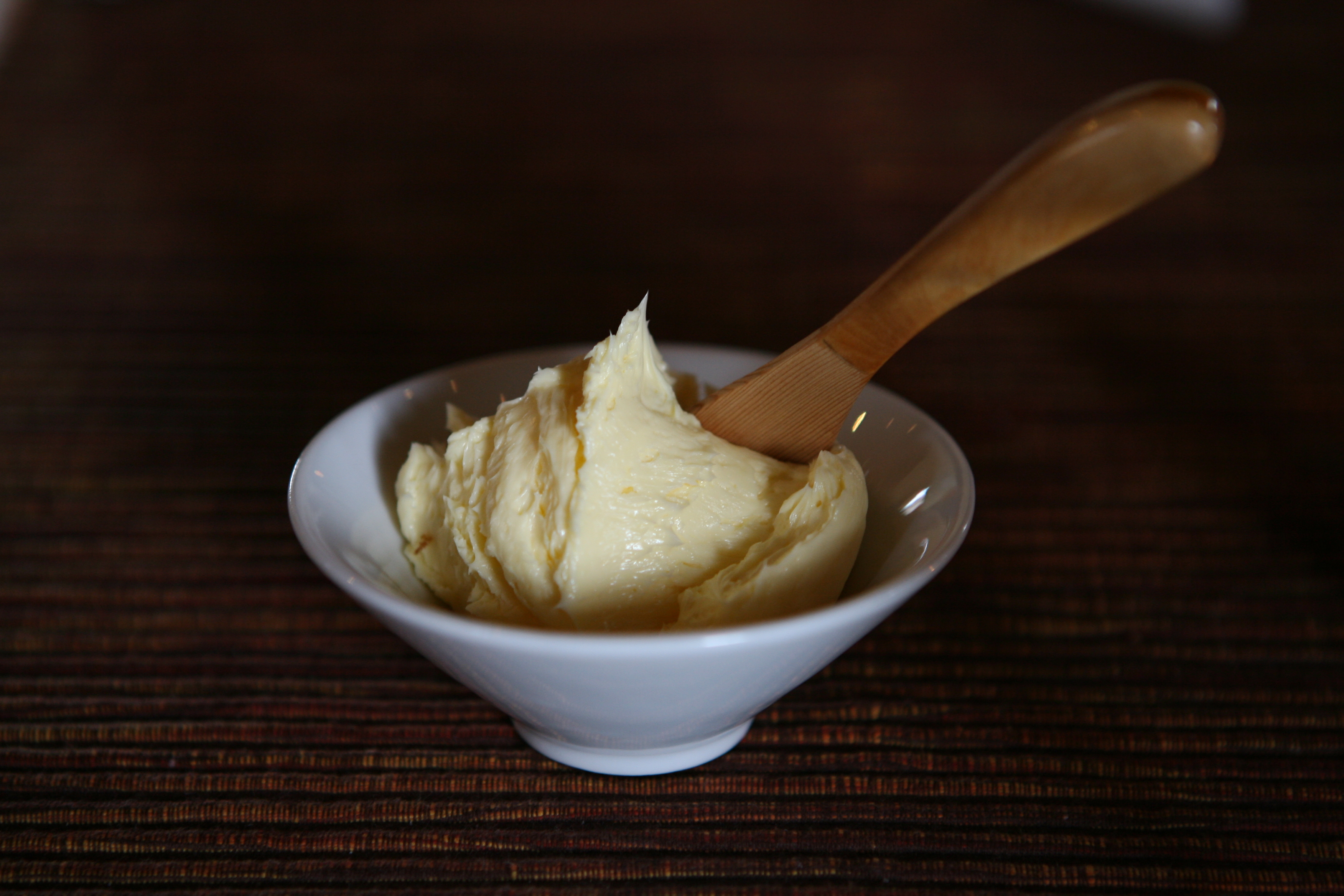 Butterplate at the restaurant Hildurs Urterarium, Brønnøy, Norway. Used for spreading at bread.